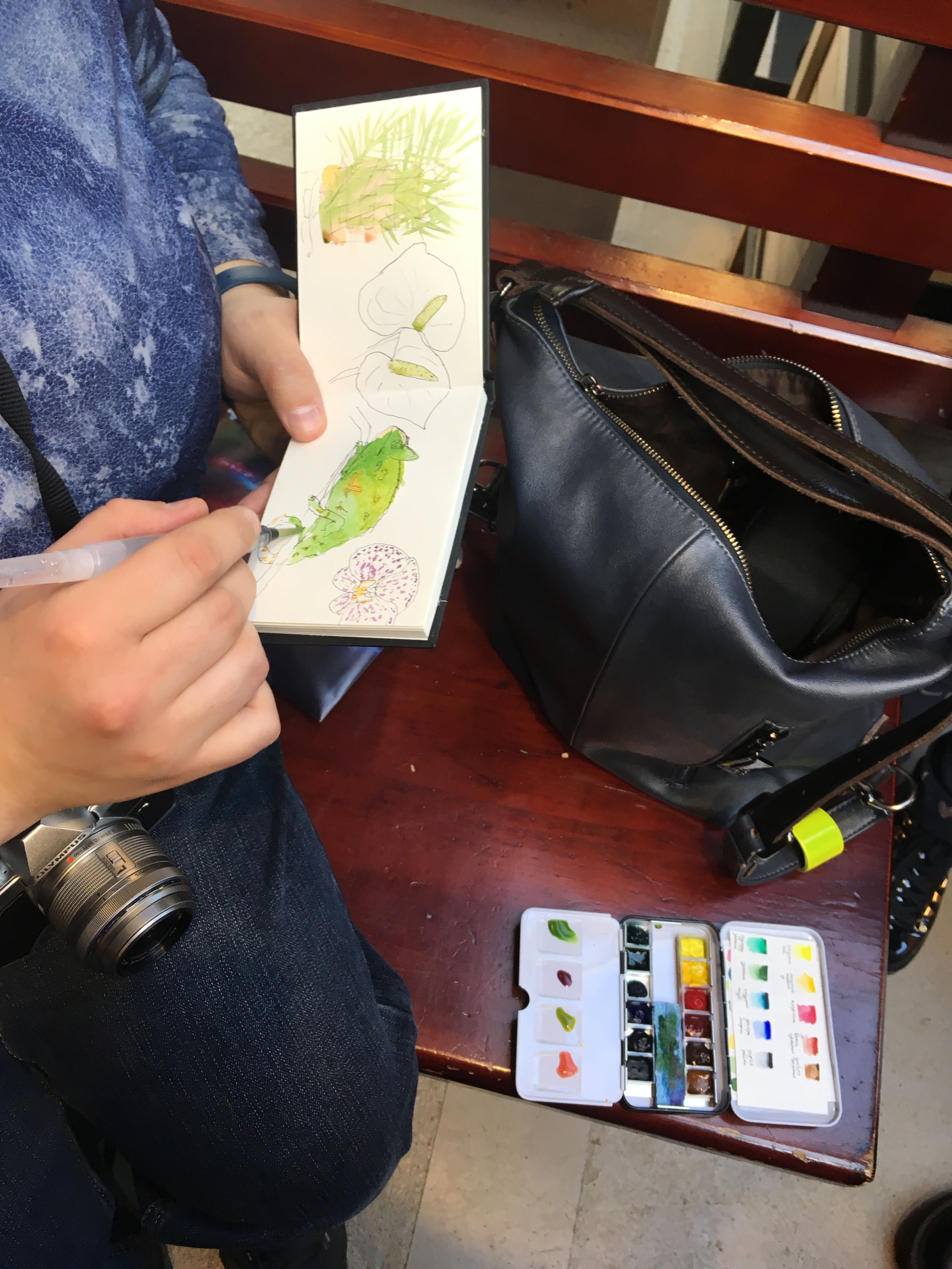 Sketching in a pharmacy garden, Moscow